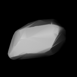 3D convex shape model of 2430 Bruce Helin, computed using light curve inversion techniques. J. Hanuš, J. Ďurech, M. Brož, B. D. Warner (June 2011). "A study of asteroid pole-latitude distribution based on an extended set of shape models derived by the lightcurve inversion method". Astronomy and Astrophysics 530: A134. ISSN 0004-6361. arXiv